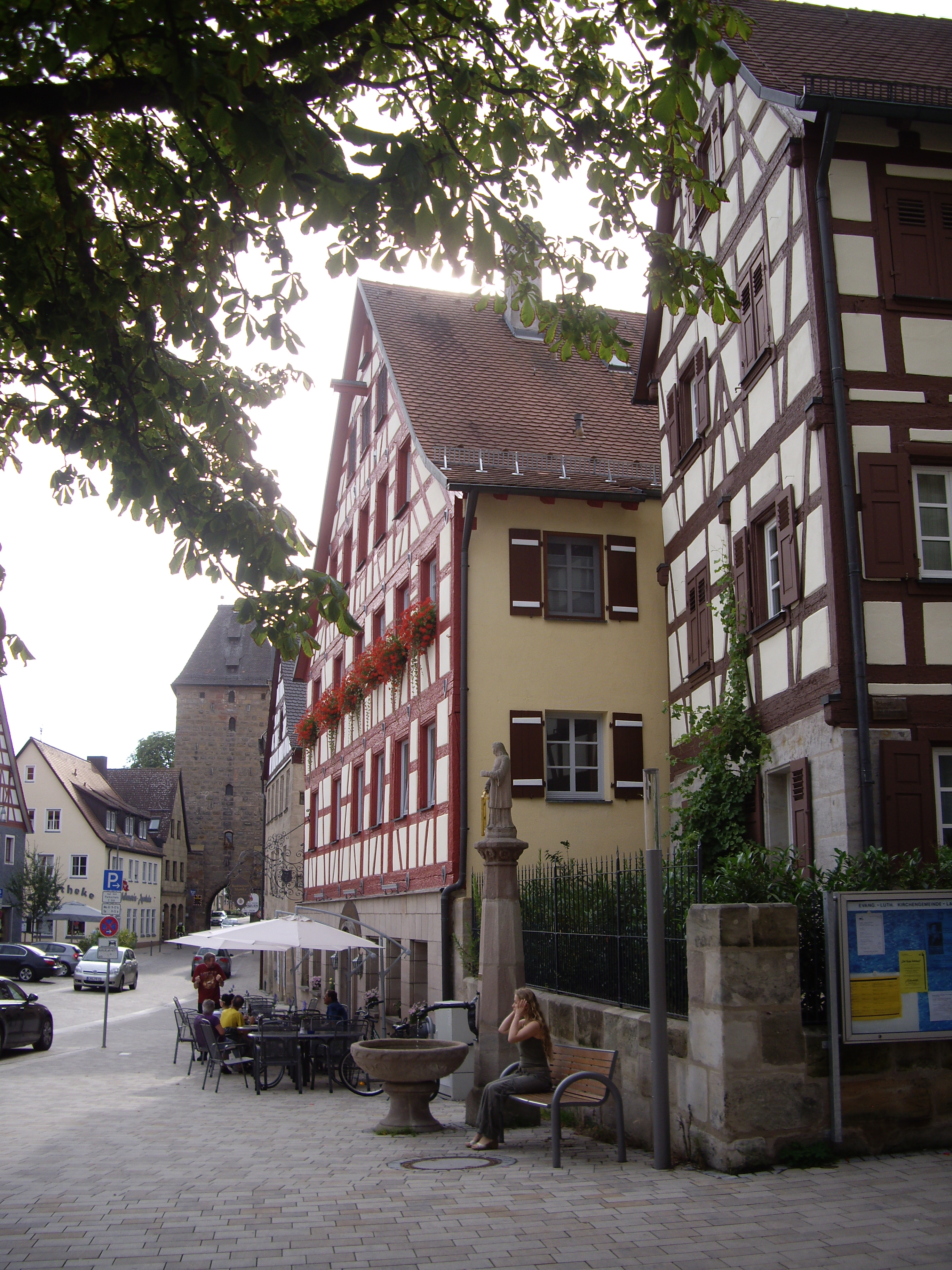 Altdorf bei Nürnberg - centre